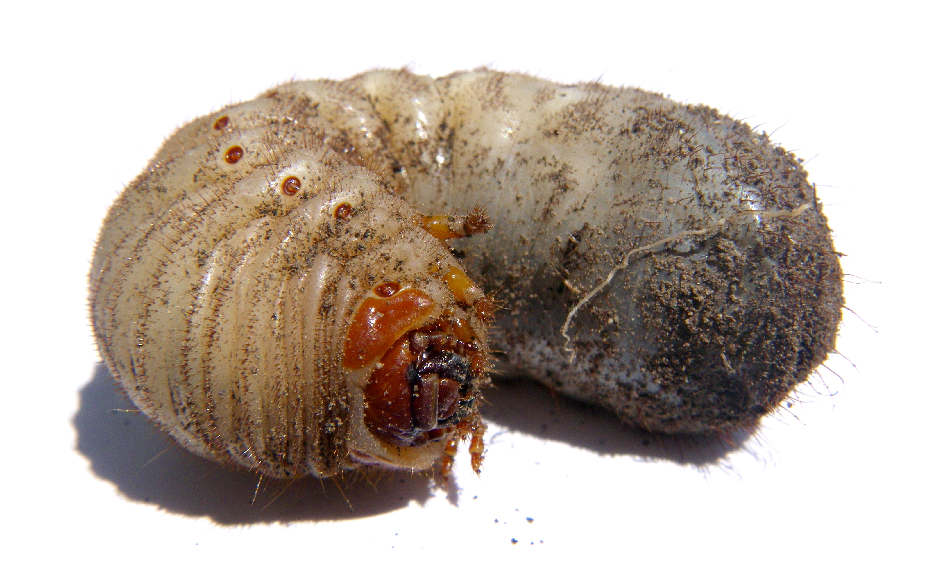 A curl grub (of some kind of Australian Scarab Beetle) found in a Sydney garden.